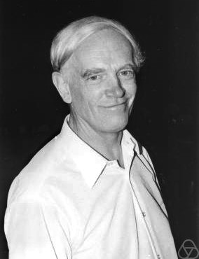 Mathematician Ernst Witt in Nizza, 1970.